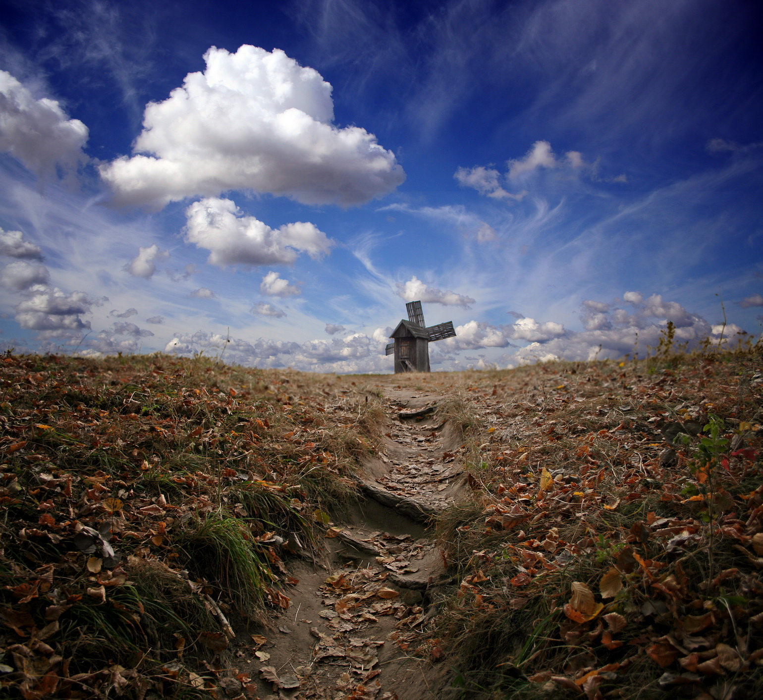 Windmill at the outdoor museum of Pyrohiv.